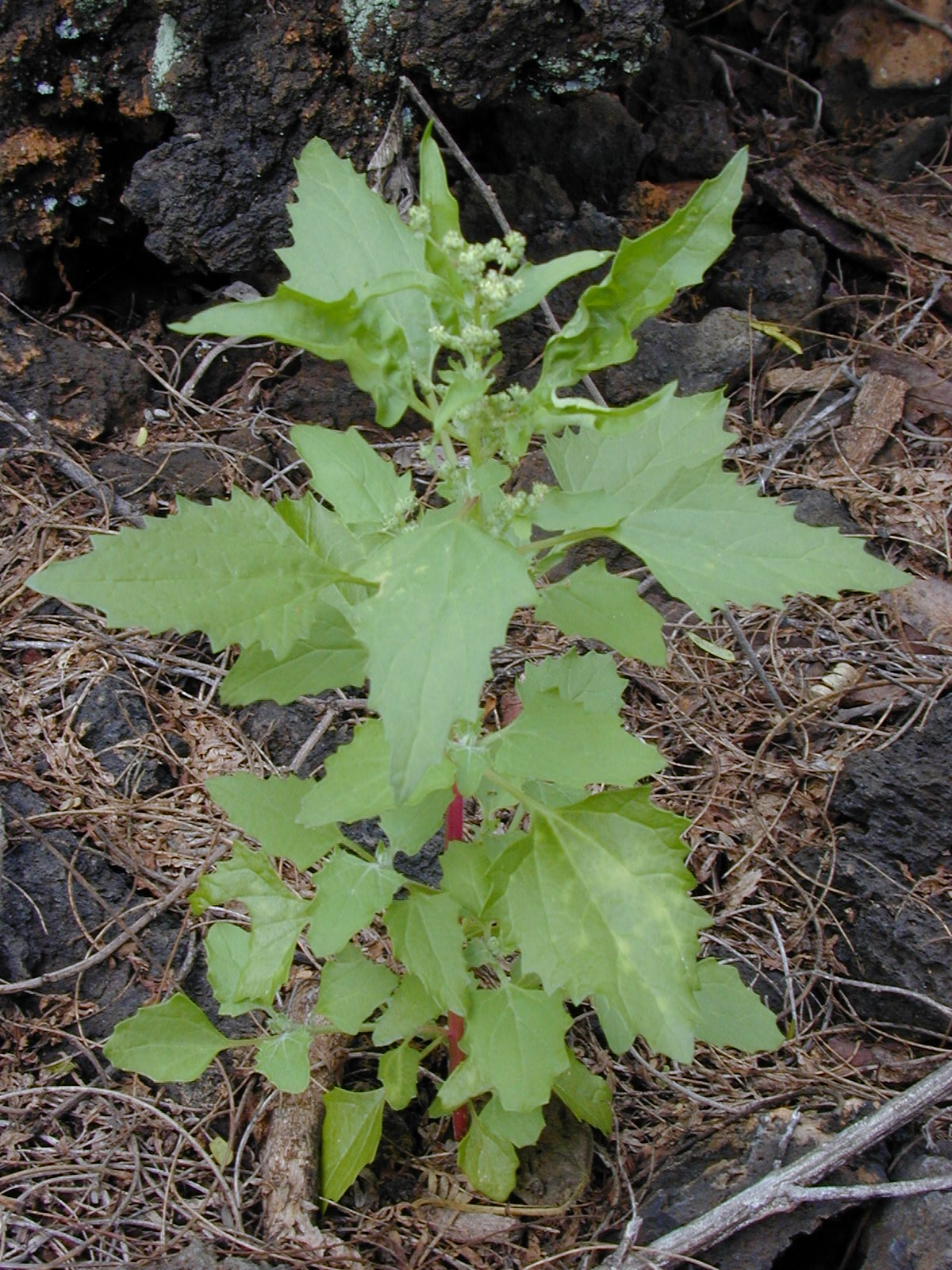 Chenopodium murale (habit). Location: Maui, Wailea 670